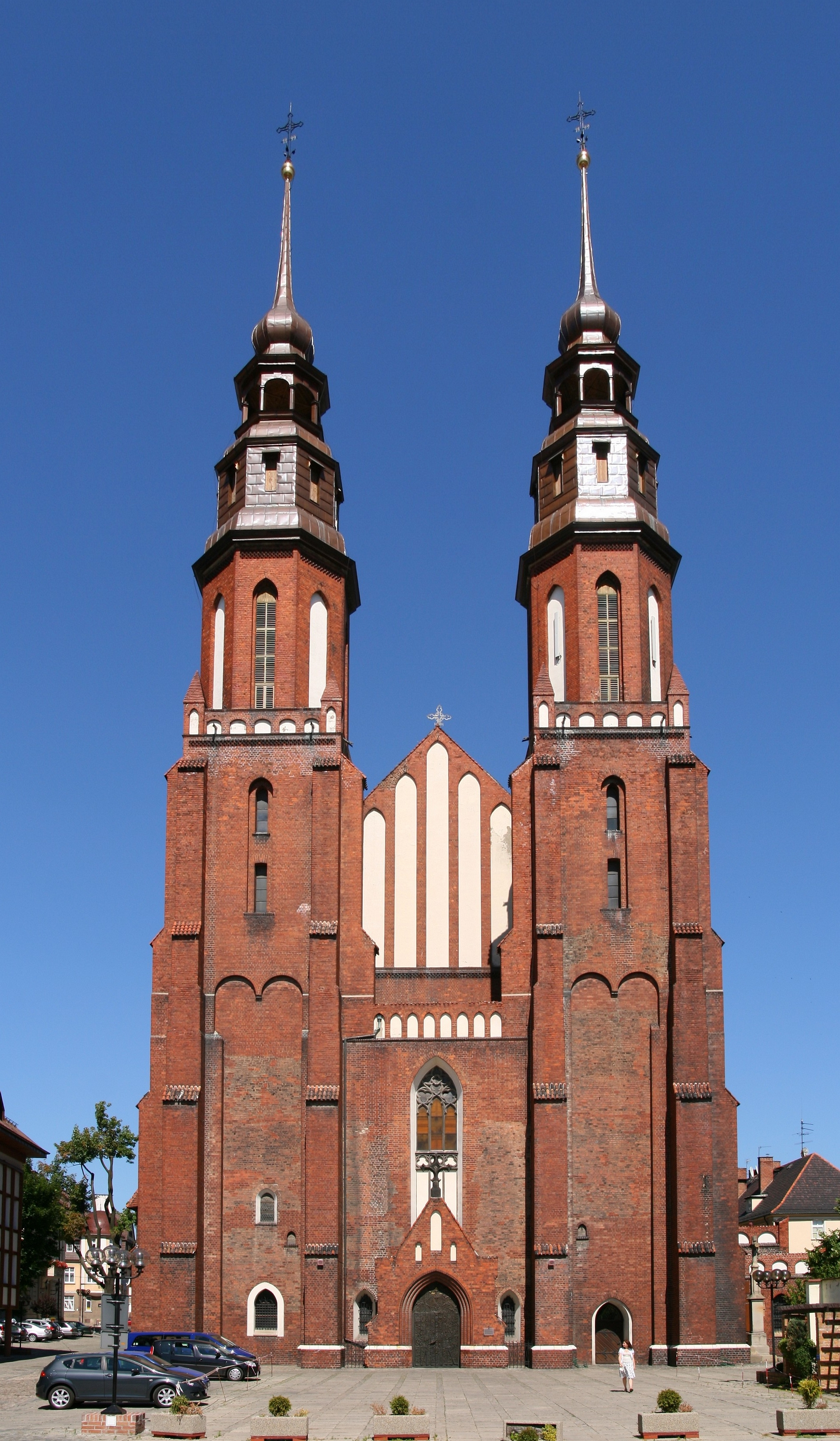 Cathedral in Opole (Poland).